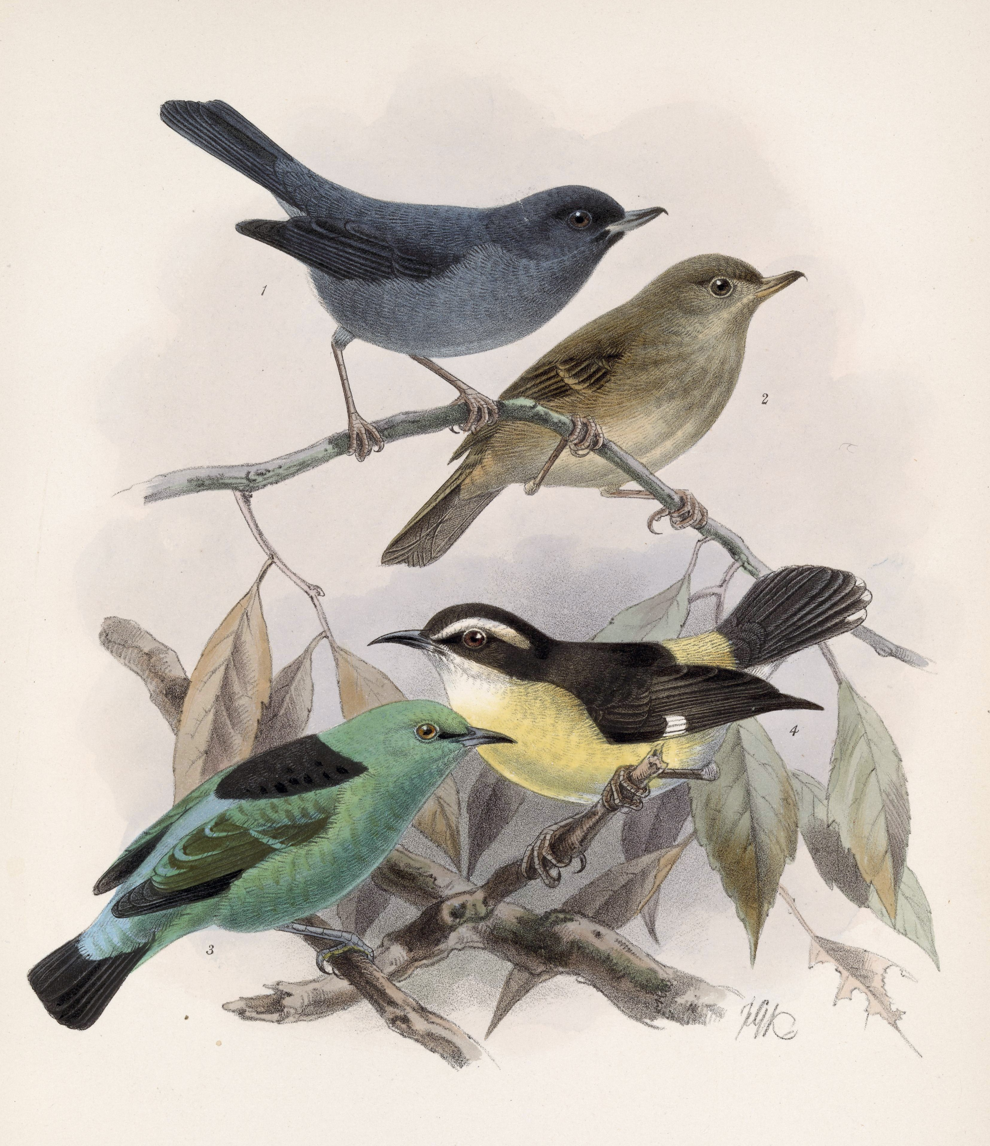 « Diglossa plumbea » = Diglossa plumbea (Slaty Flowerpiercer) - male and female « Dacnis vigueri » = Dacnis viguieri (Viridian Dacnis) « Certhiola caboti » = Coereba flaveola caboti (Subspecies of Bananaquit)